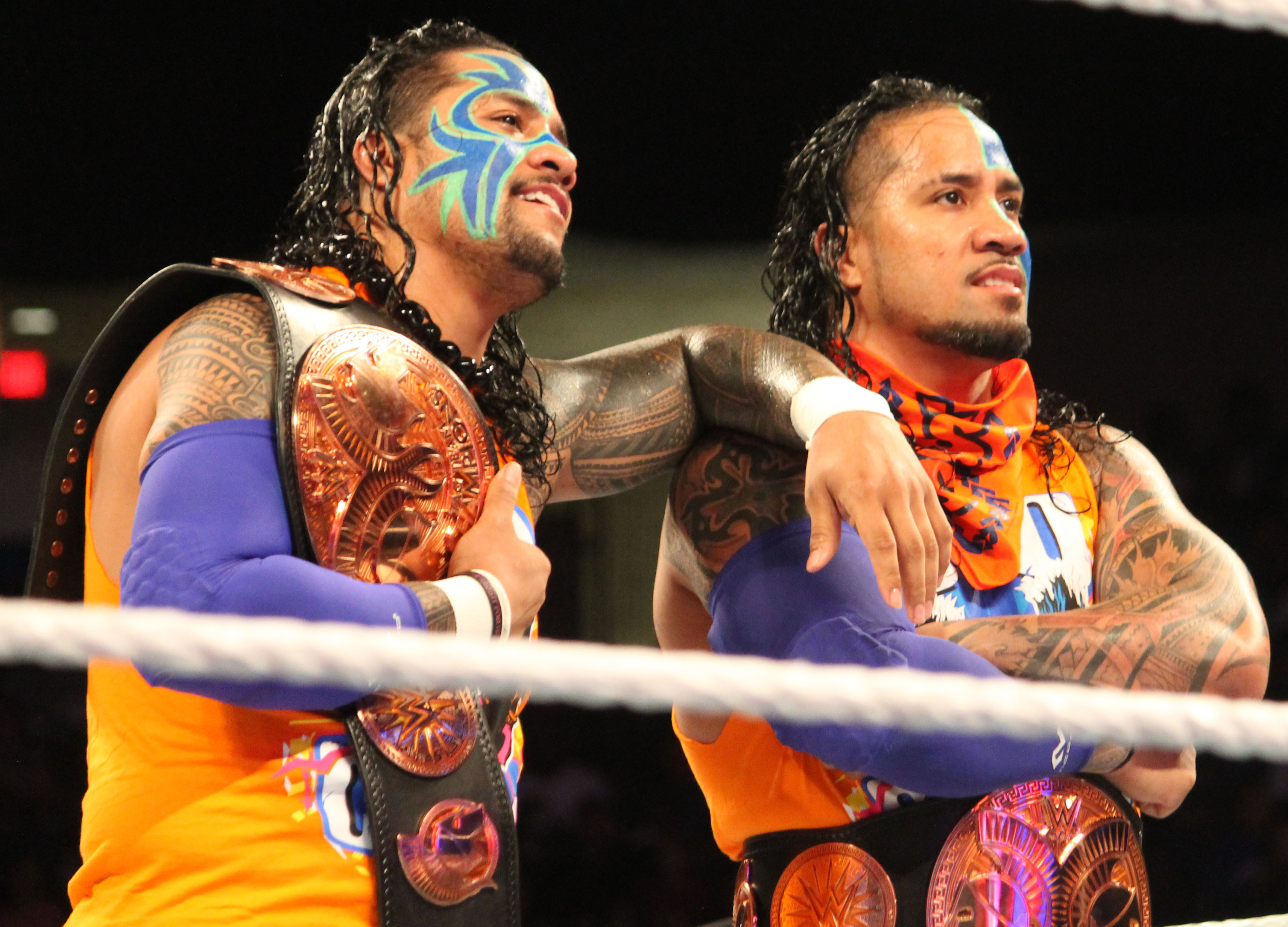 The Usos, as WWE Tag Team Champions, at a WWE SmackDown television taping on September 16, 2014.